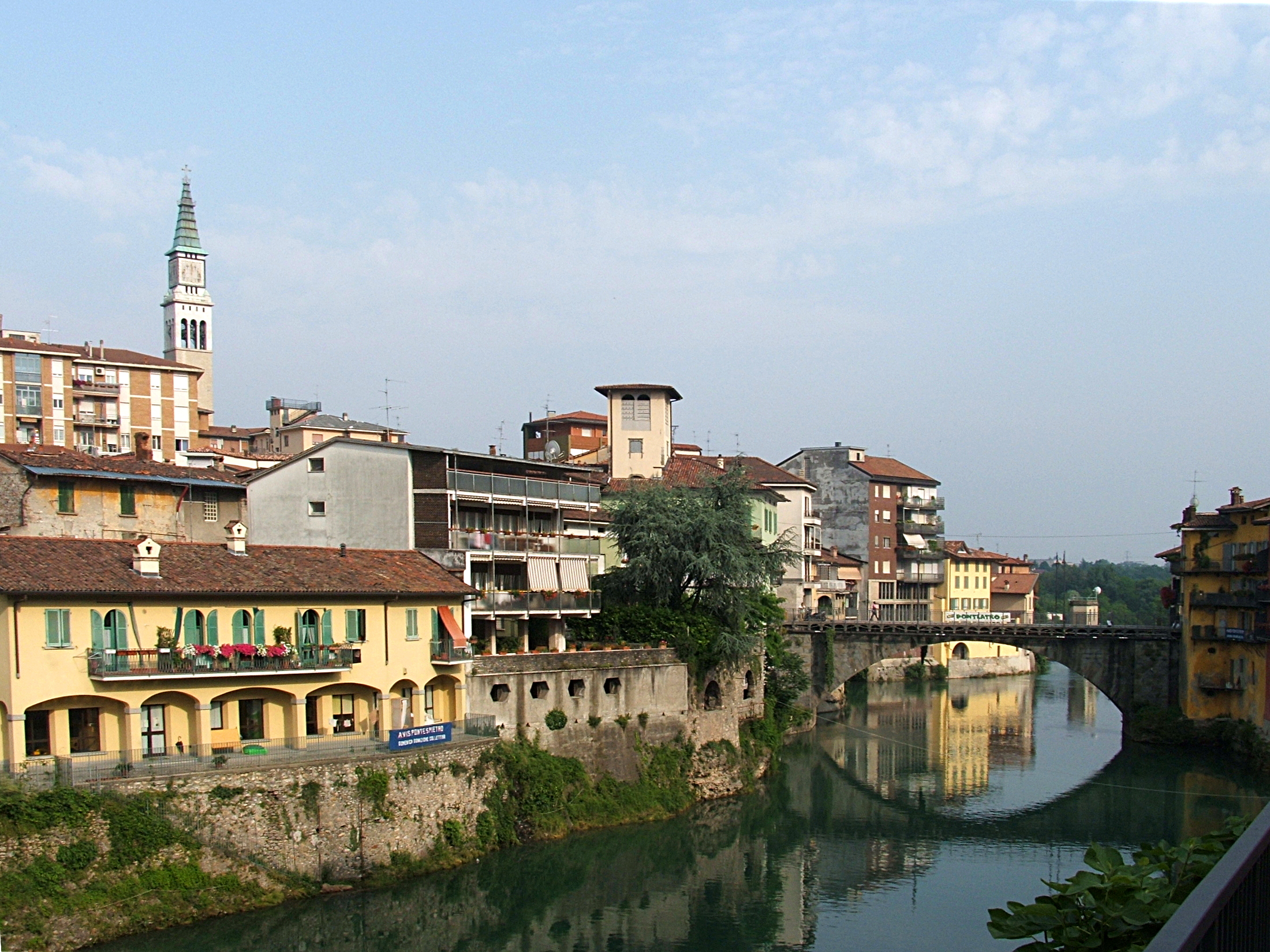 Ponte San Pietro, Bergamo, Lombardy, Italy – View along Brembo river